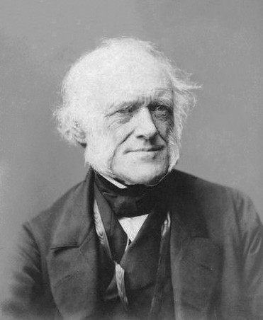 Charles Lyell, 1st Bt